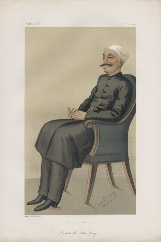 Caricature of Nawab Sir Salar Jung KCSI. Caption read "An Indian Statesman".